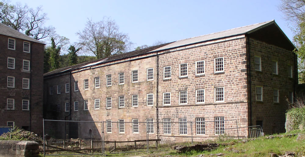 The first mill as it is today. In 1785 the mill was extended to its present length with a culvert beneath for the Bonsall Brook. The sough was separated from the brook and brought from the village along the south side of Mill Lane which it crossed by way of the aqueduct to a new overshot wheel.